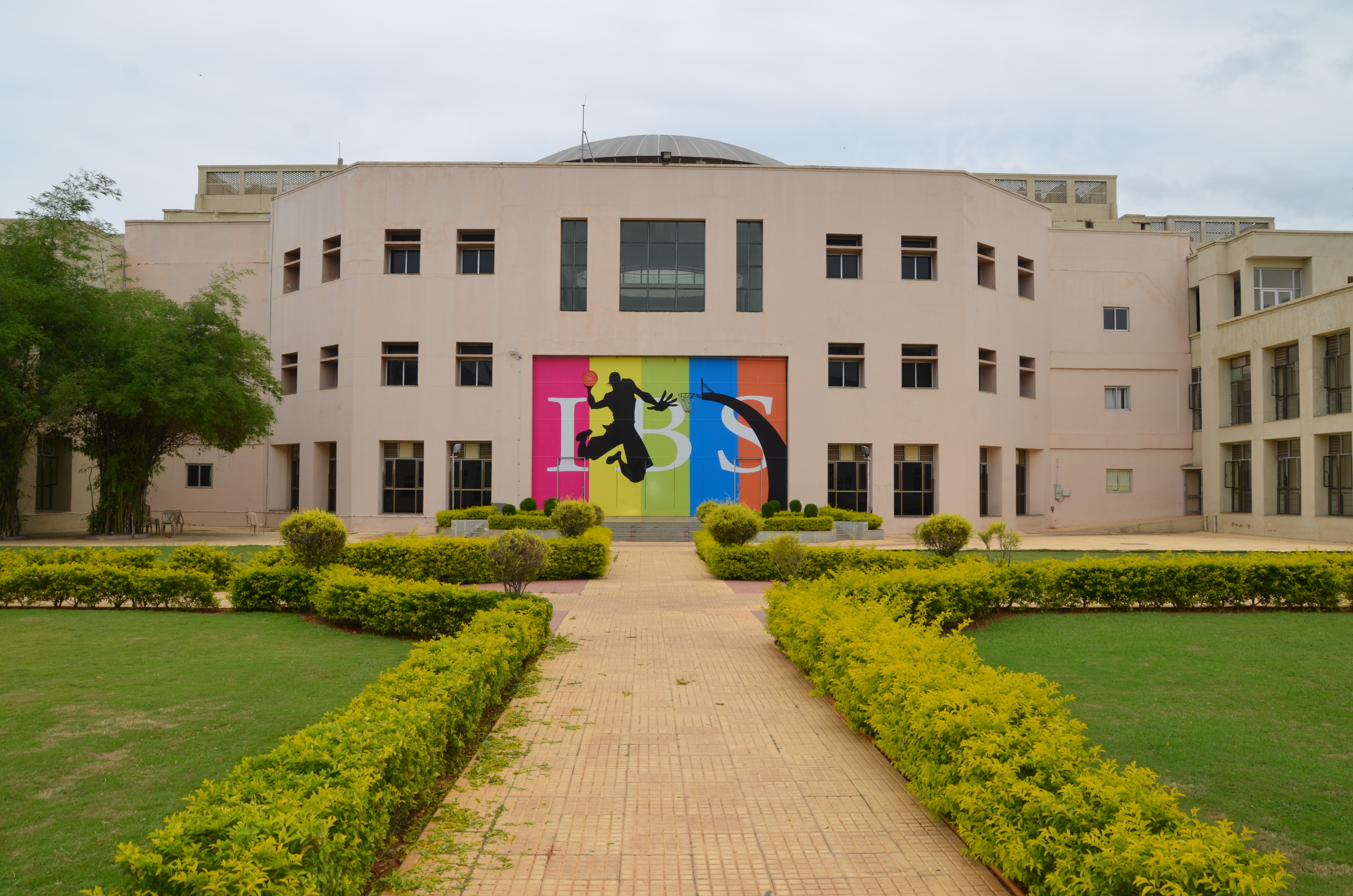 ICFAI Business School (IBS), Hyderabad is a constituent of the ICFAI Foundation for Higher Education (IFHE), a Deemed University. IBS, Hyderabad is one of the top ranked business schools in India